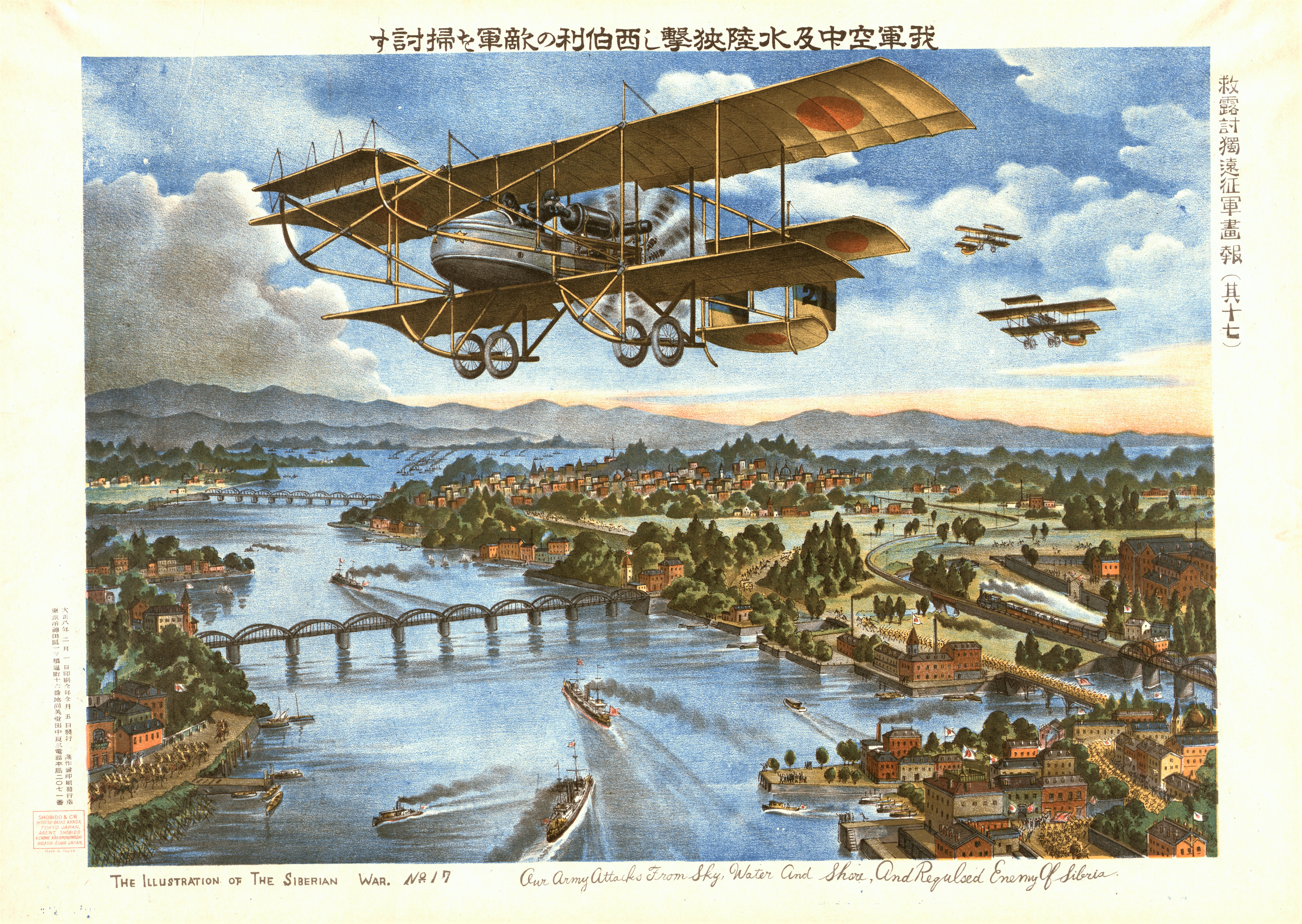 "Our army attacks from sky, water and shore, and repulsed enemy of Siberia" (sic) -- Japanese occupation of the Russian city of Khabarovsk during the Russian Civil War